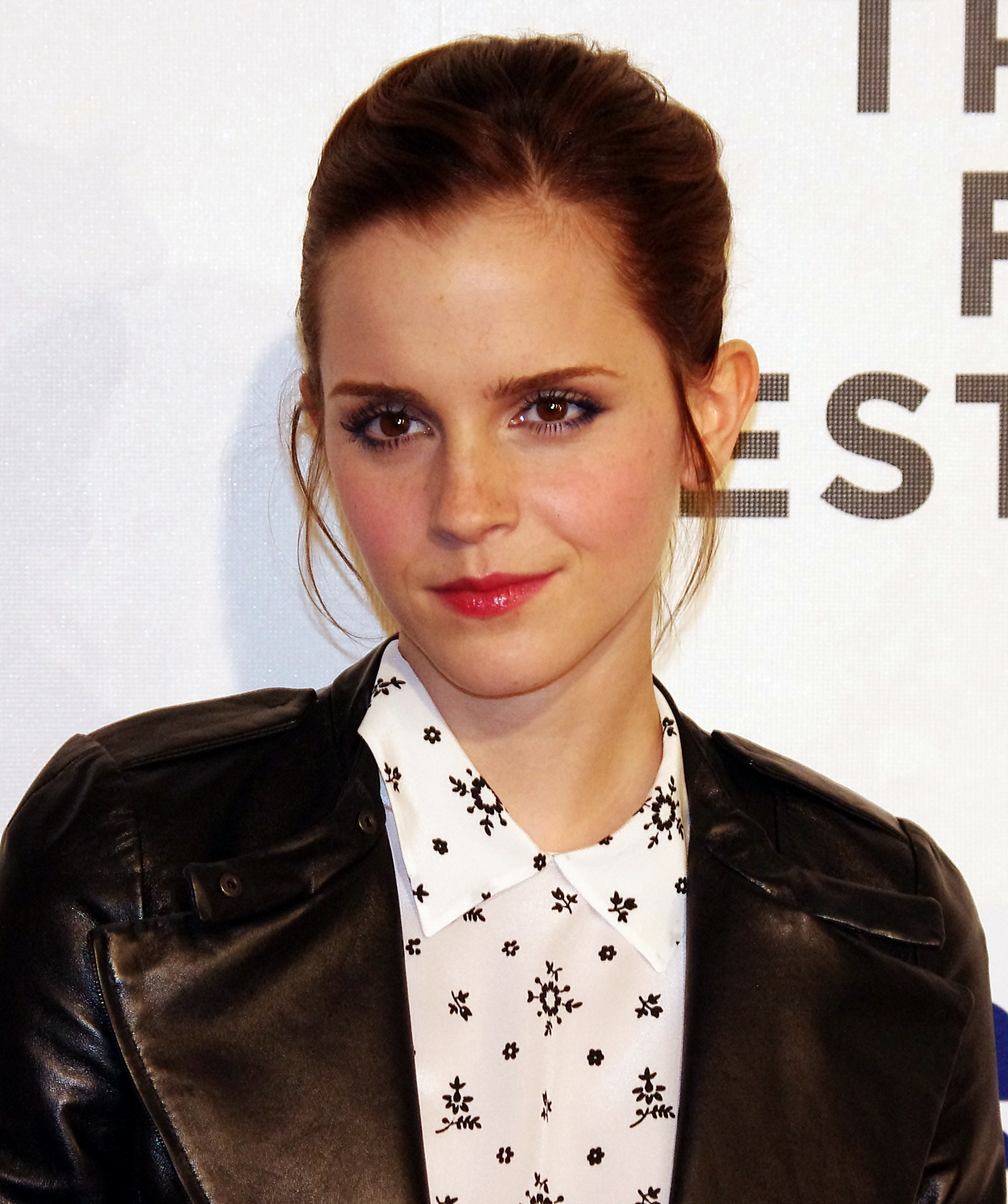 Emma Watson at the 2012 Tribeca Film Festival.